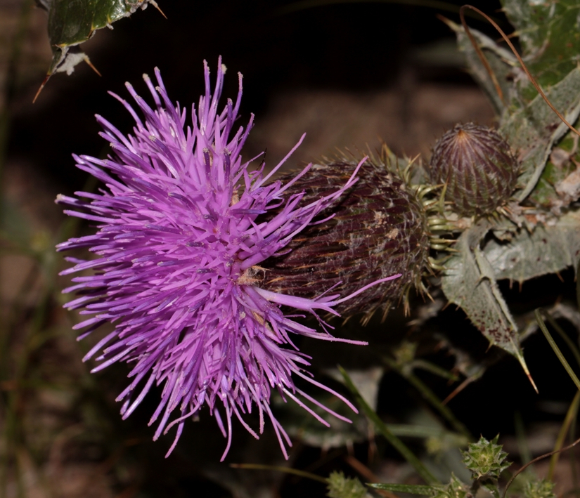 赤峰 Olgaea leucophylla Chifeng, Inner Mongolia, China